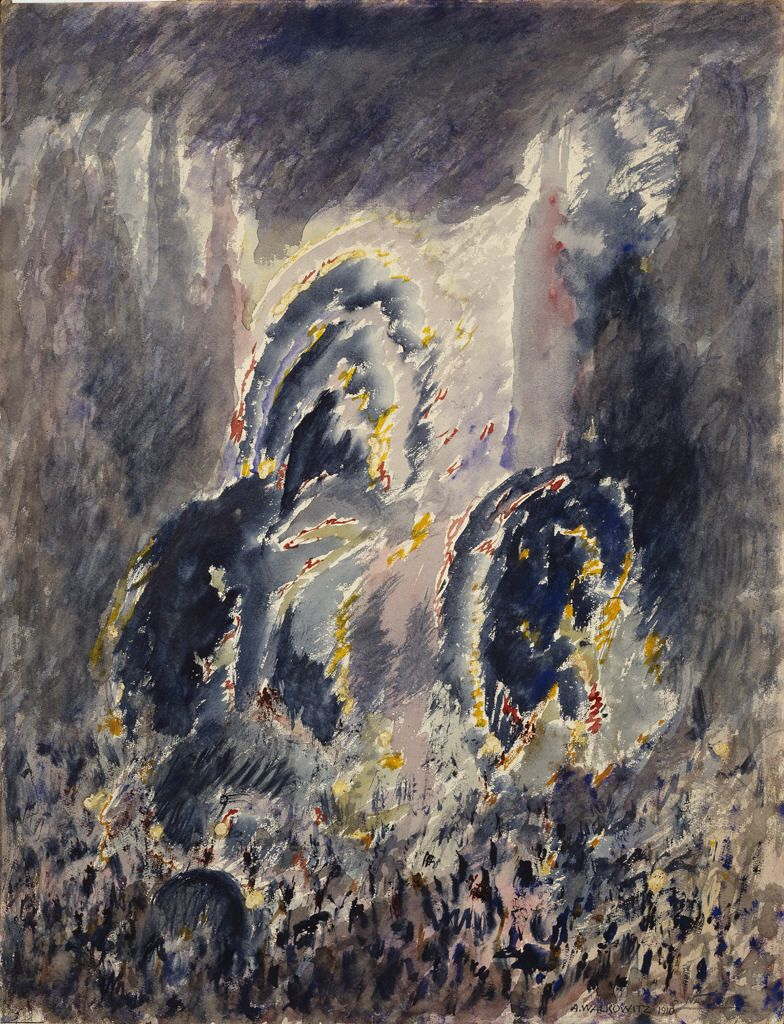 Times Square. Watercolor on paperboard, 24 1/2 X 18 11/16 in (62.3 X 47.4 cm).